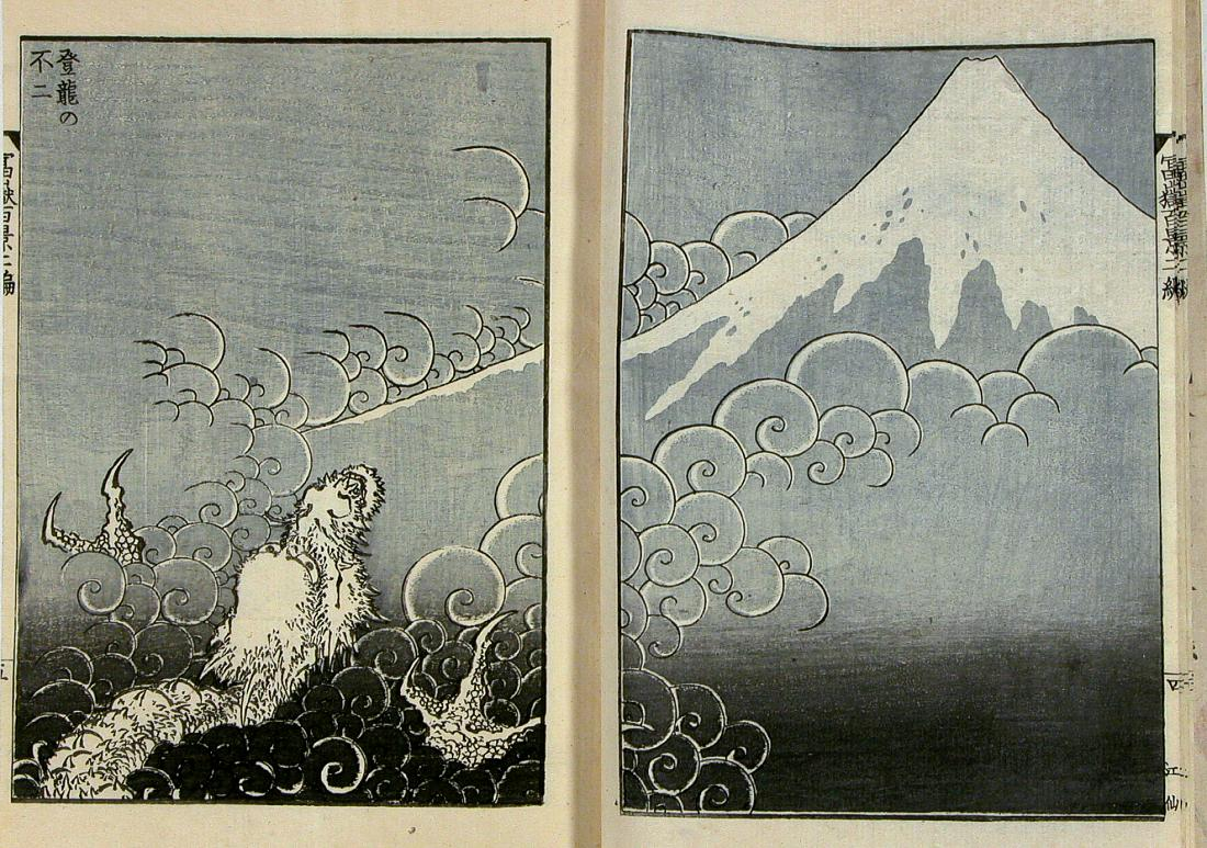 Katsushika Hokusai, Dragon ascending Mount Fuji from 'One Hundred Views of Mount Fuji' (Fugaku hyakkei), a woodblock print. Japan, Edo period, published AD 1835. Woodblock-printed book in three volumes, published by Seirindō, Edo (and others). (